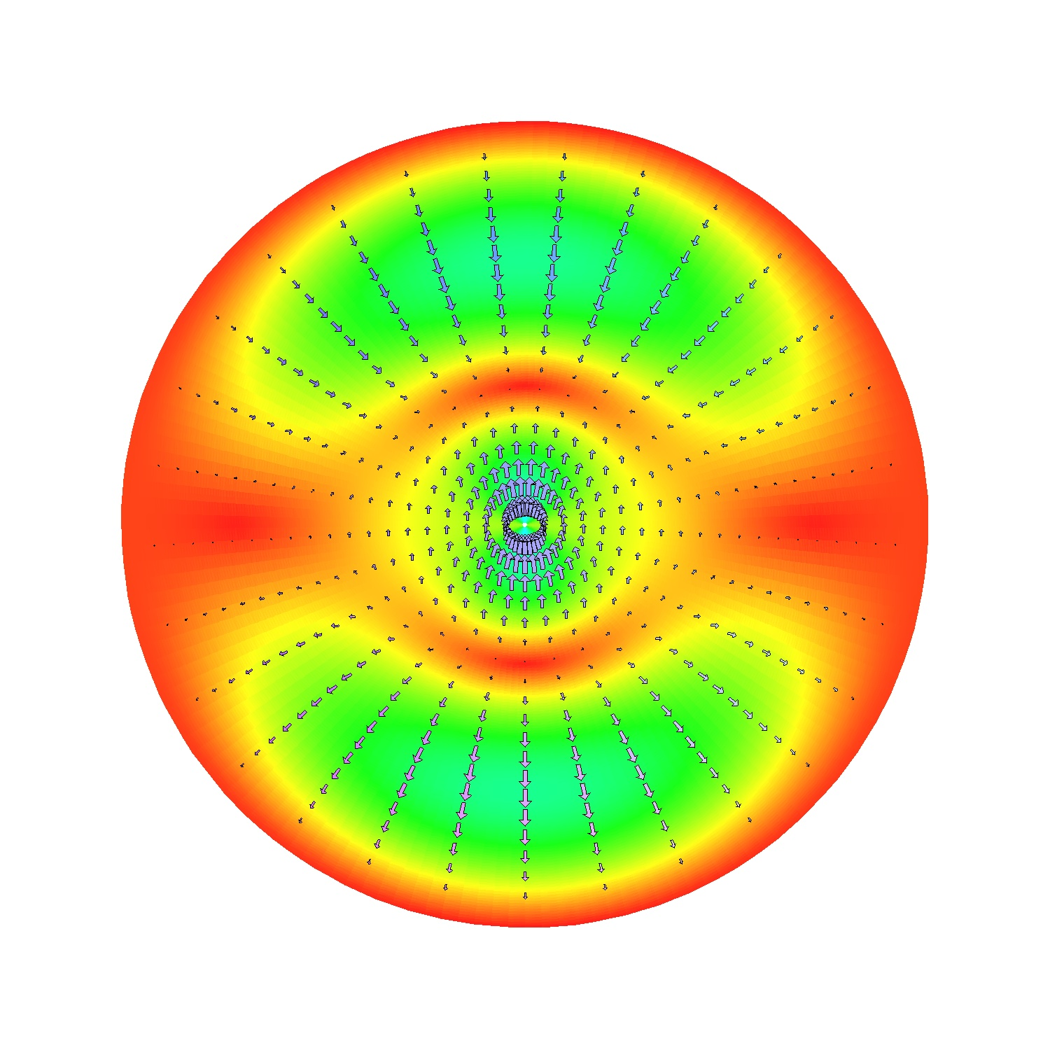 Plot of E and H fields on the TEnl mode defined by n and l.